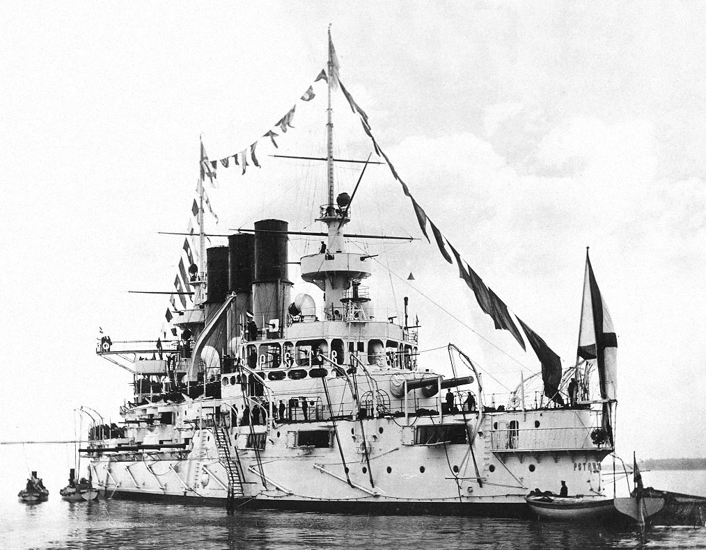 The Russian battleship Retvizan (1902-04), Japanese Battleship Hizen (1904-24). Retvizan was a Russian pre-Dreadnought battleship which fought in the Russo-Japanese War. She was unique in that many of her components and their actual fabrication was done in the United States for the Imperial Russian Navy. She was captured and renamed Hizen by the Japanese.